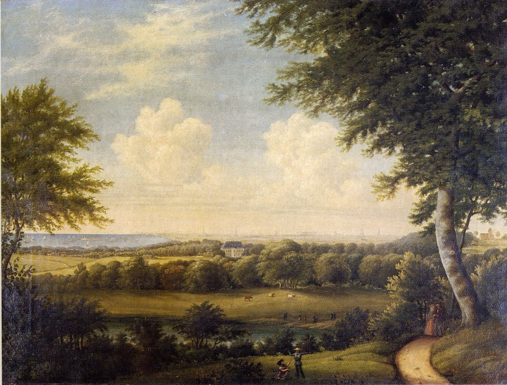 Bernstorff Slot viewed from Fortunen in Denmark